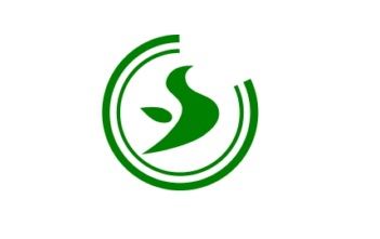 Flag of Takayama Nagano